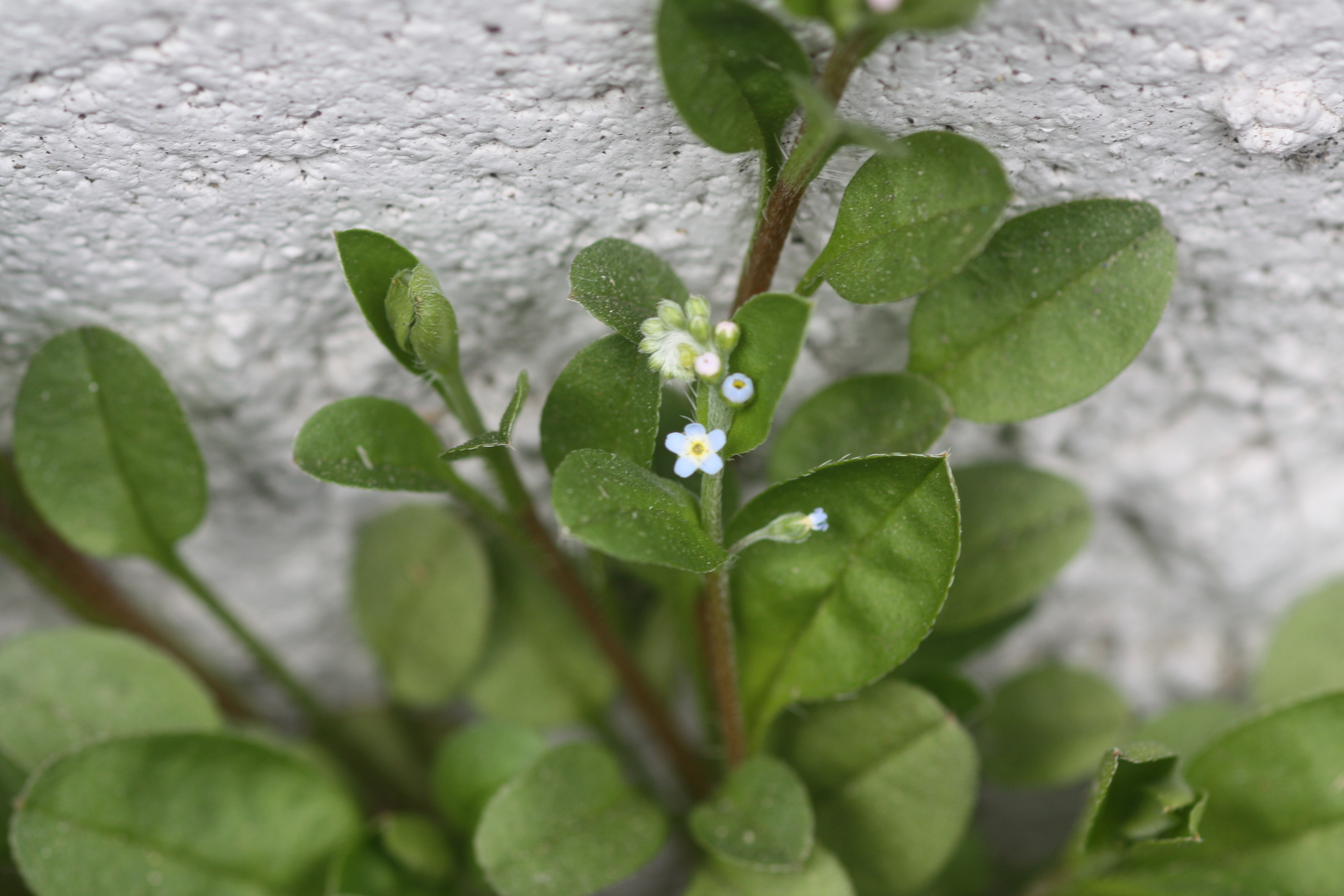 Trigonotis peduncularis